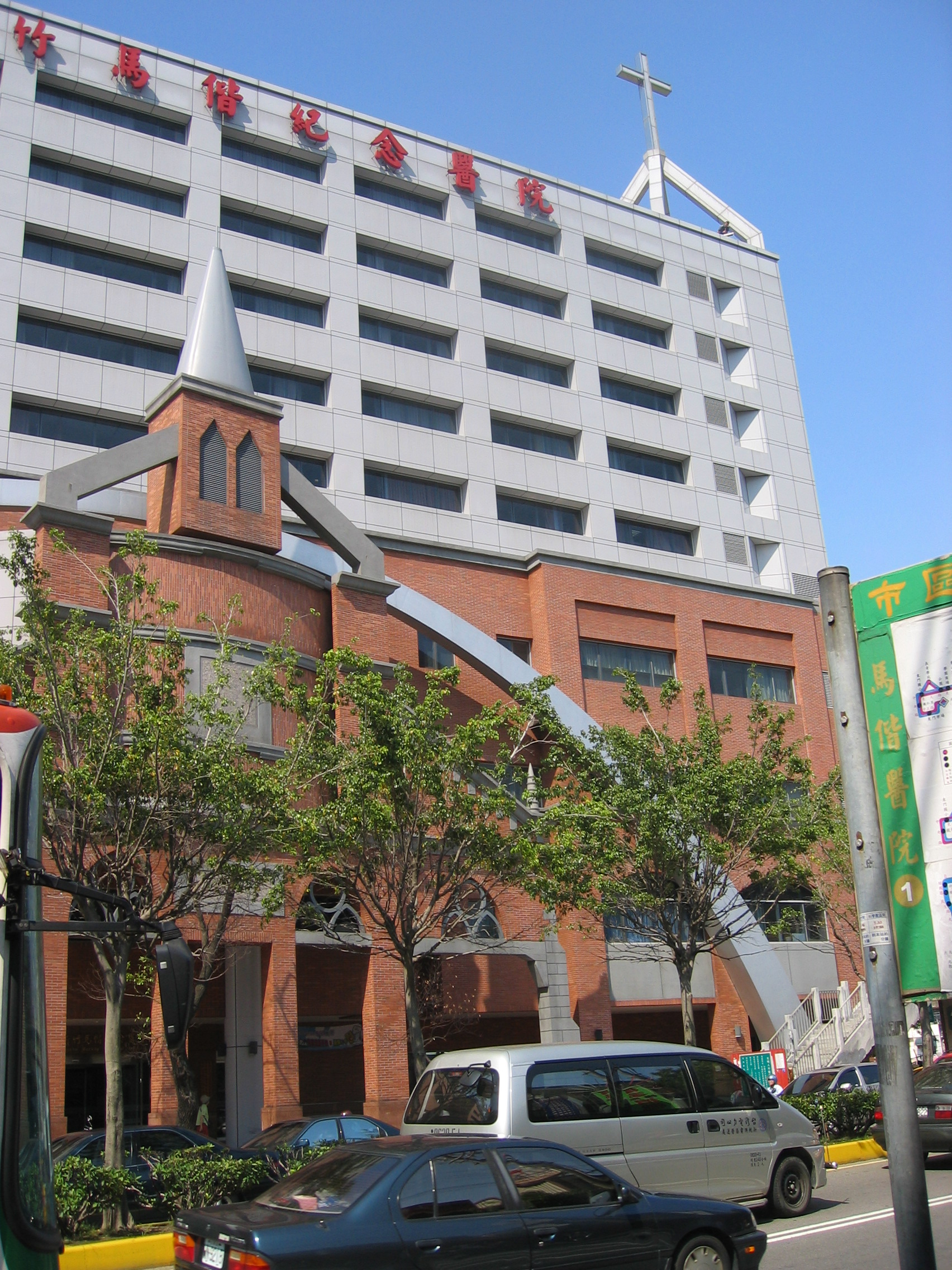 Mackey Memorial Hospital, Hsinchu City